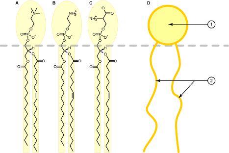 Schematic representation of phosphoacylglycerols